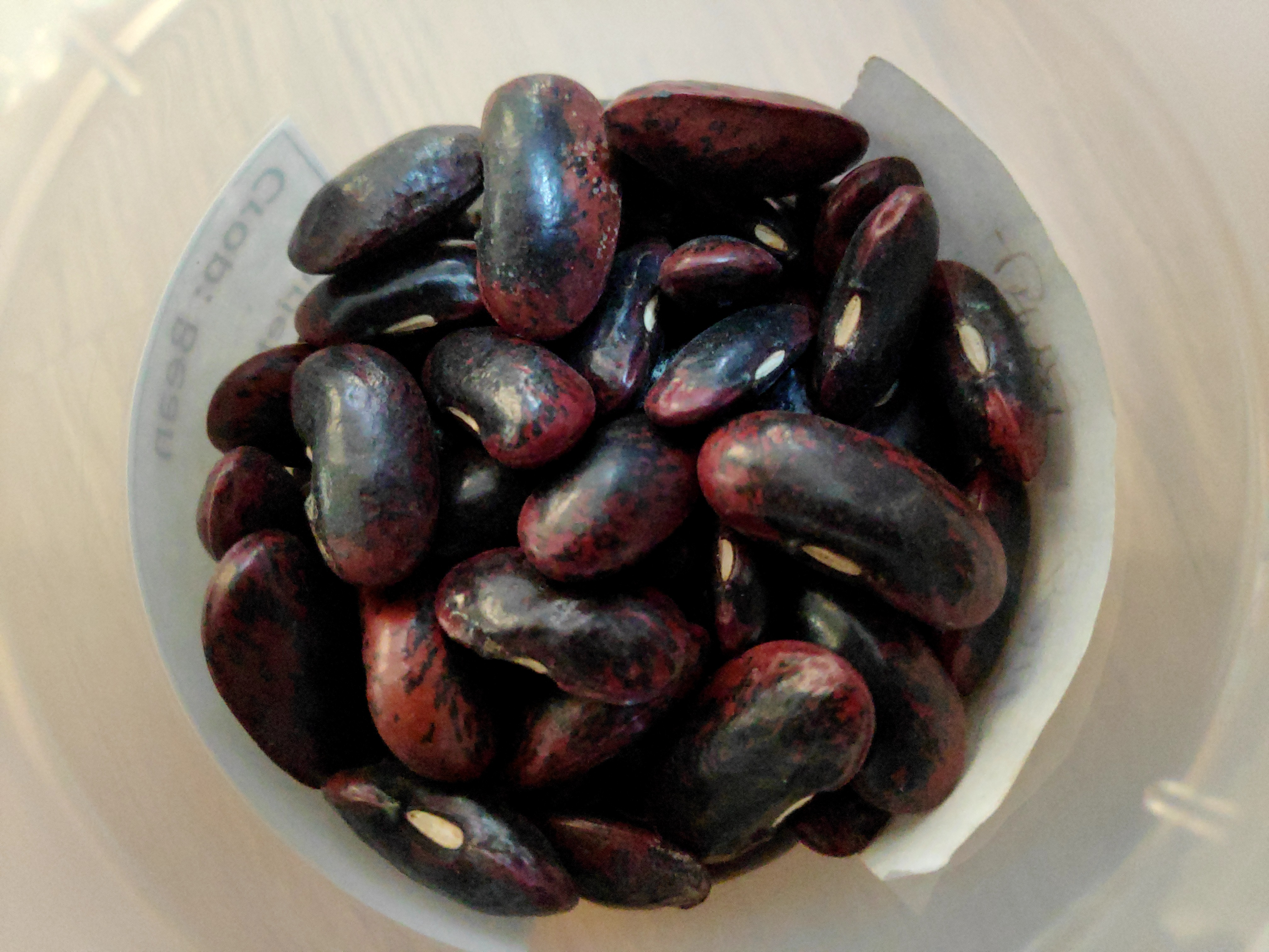 Bean Local Bhote from Mustang, Nepal.